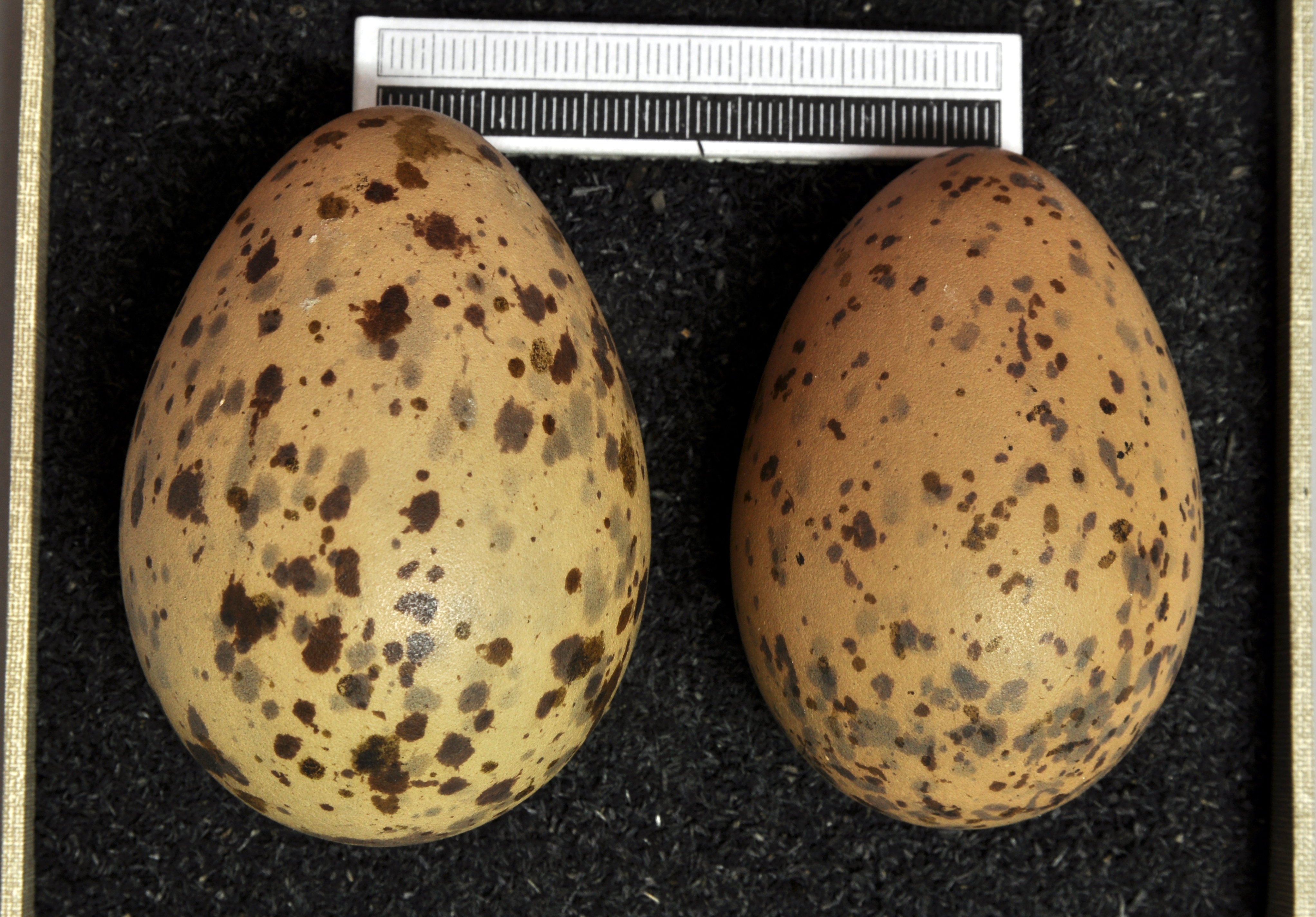 Lesser black-backed gull Larus fuscus , egg, Coll. Museum Wiesbaden